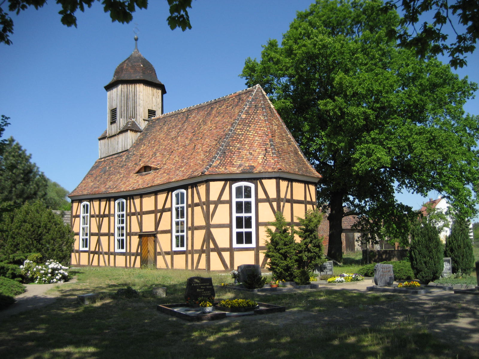 Church of Arnsnesta, Brandenburg.